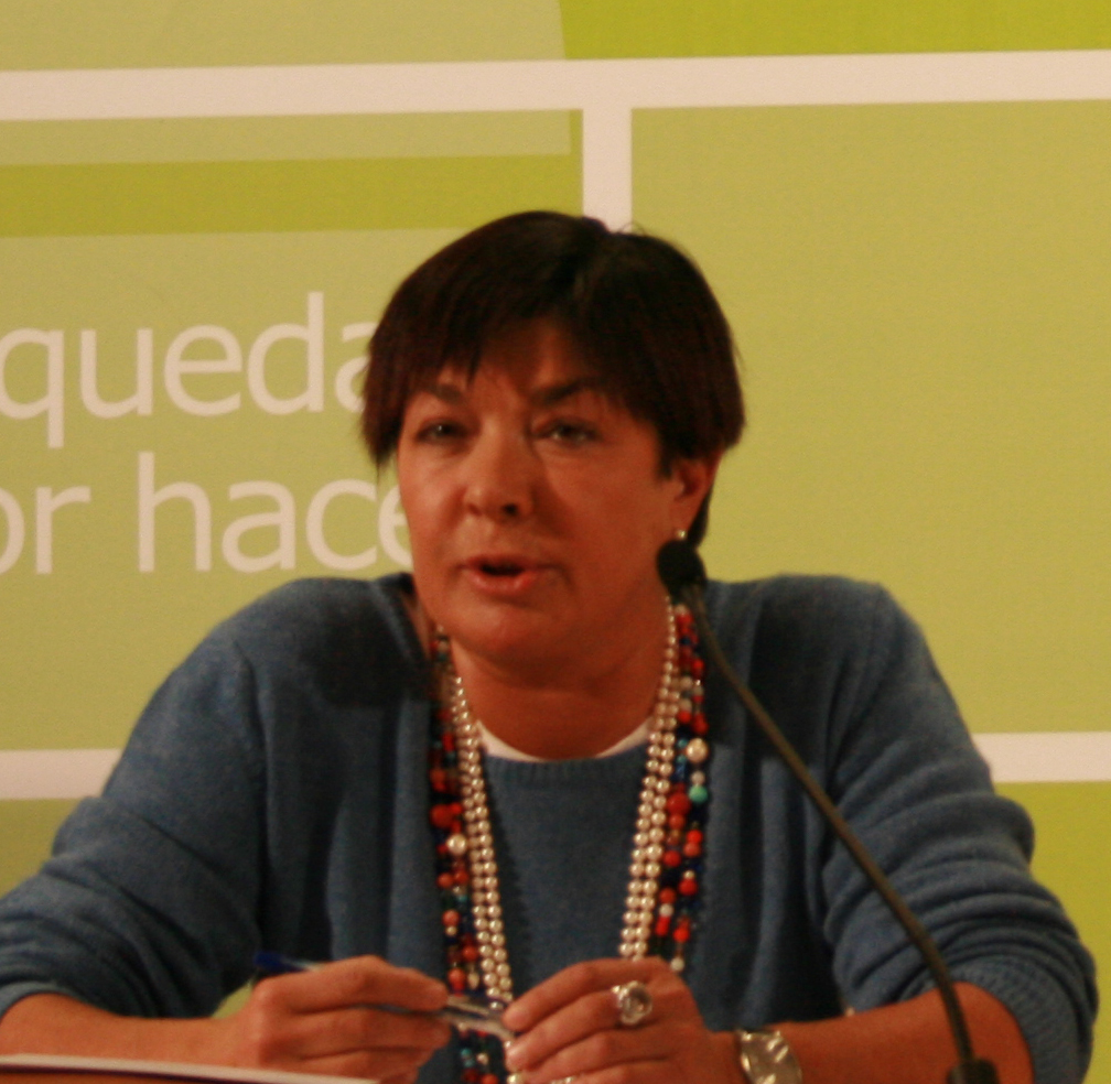 Margarita Uria.